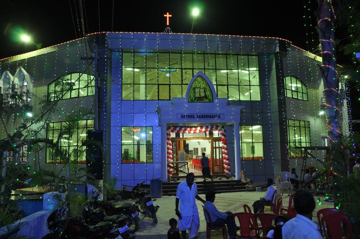 Bethel Tabernacle - Kattathurai part of Bethel Mission Church founded by Pr. N. Thomas